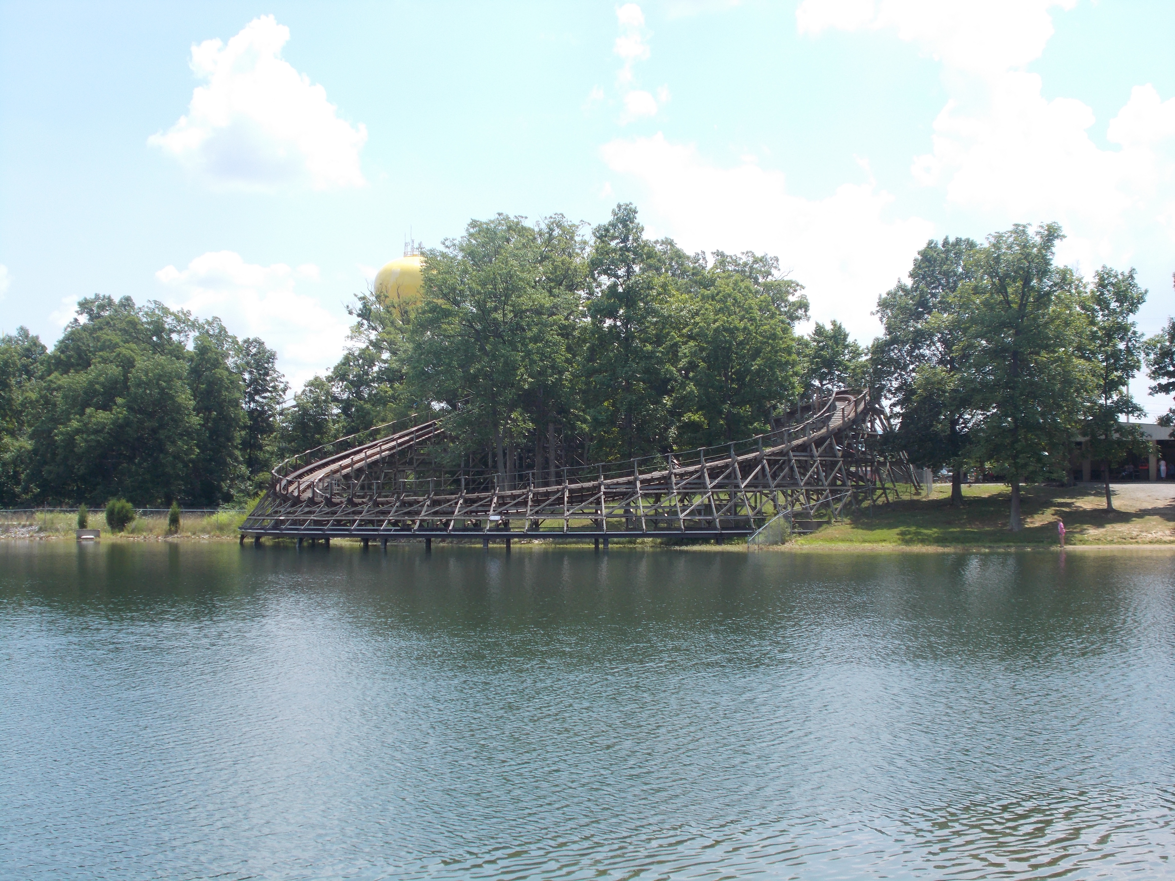 The Raven Roller coaster across Lake Rudolph